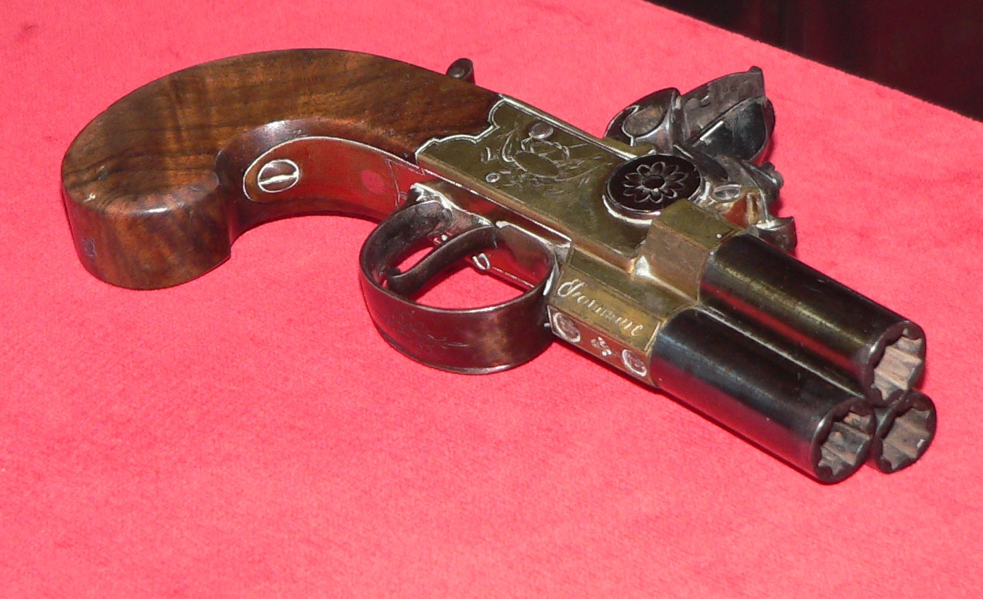 Pistols, musee d'Art et d'Histoire de Neuchatel